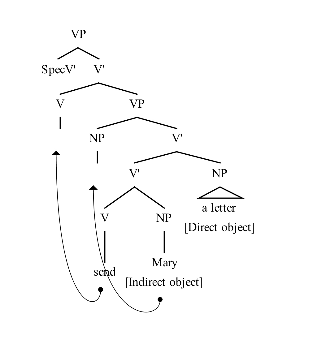 Larson's 1988 Account of Dative Shift